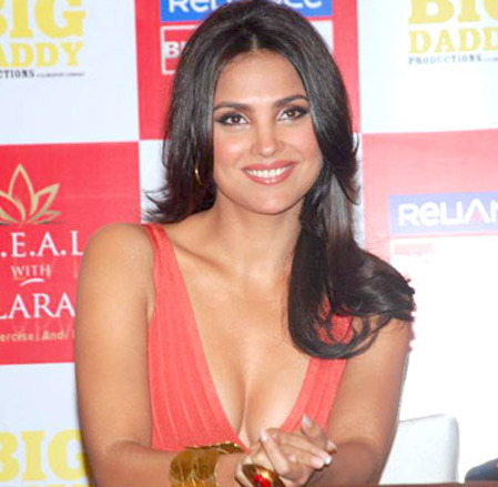 Lara Dutta launches her own line of yoga DVDs.